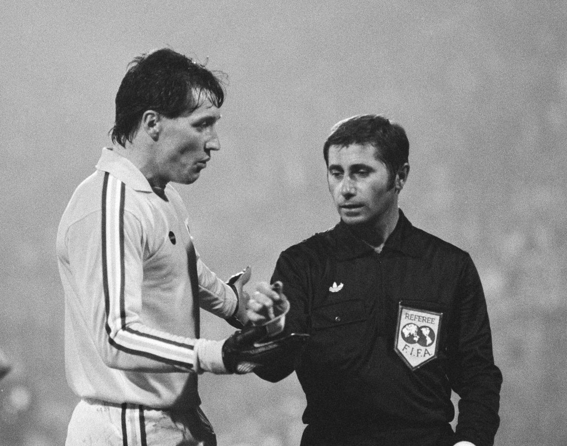 Jim McDonagh en Vojtech Christov. Een spelmoment van de wedstrijd Nederland-Ierland tijdens de voorronde van het WK 1981.